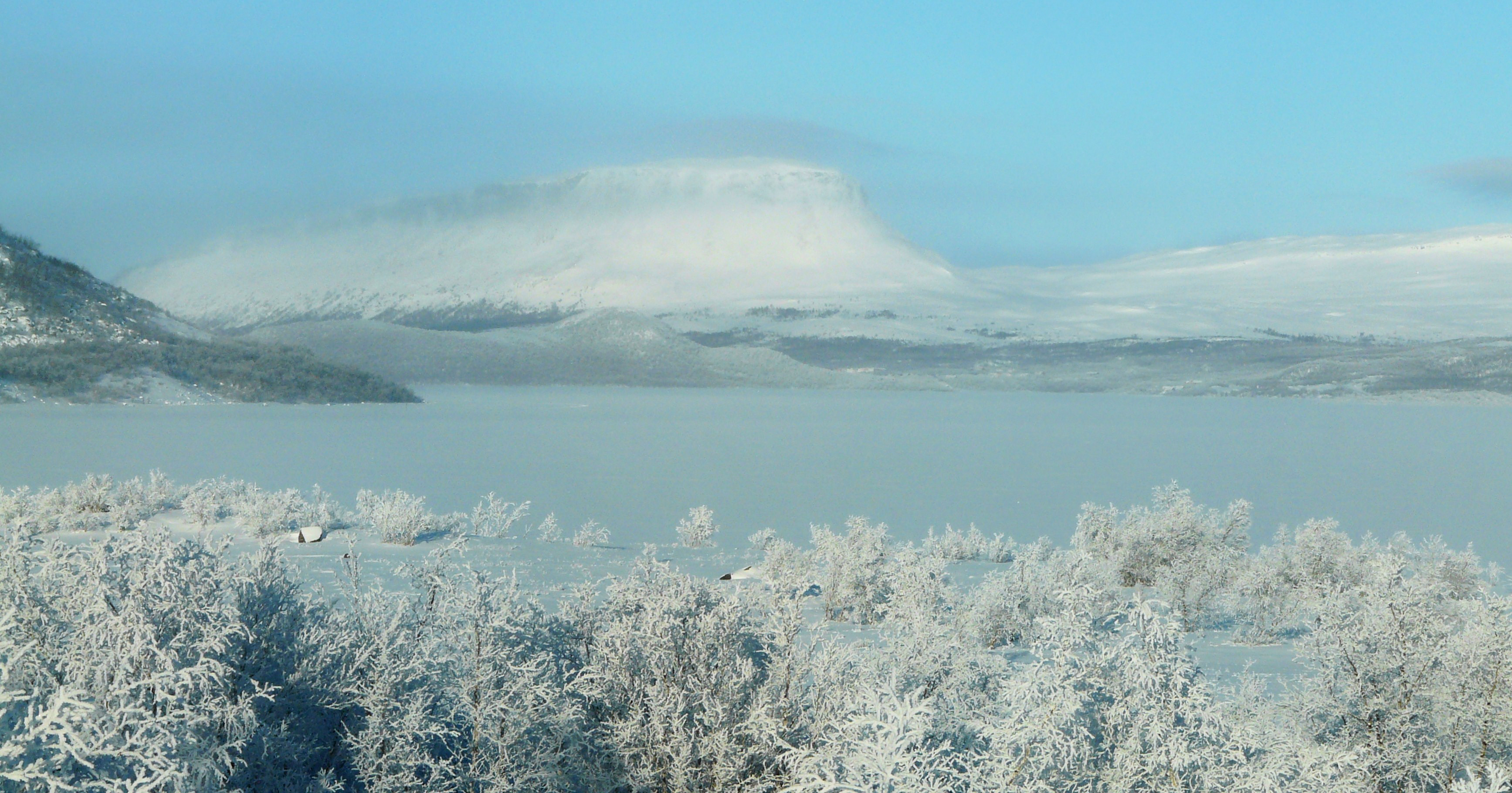 A view to Saana and Ala-Kilpisjärvi from the Finnish national road 21 (E8) near Muotkatakka on a frosty day in 2009 February.